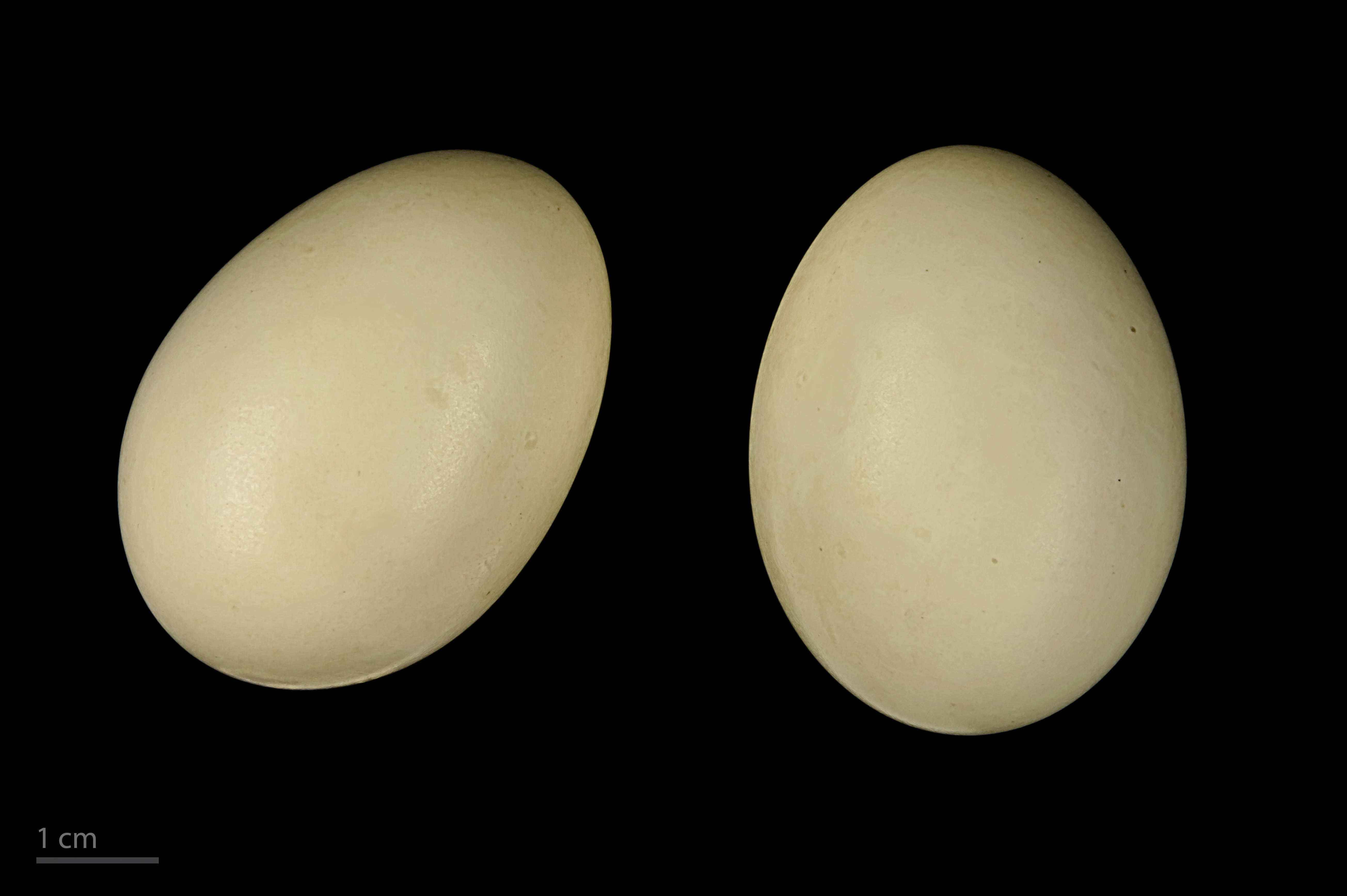 Egg of Eurasian teal Collection of Jacques Perrin de Brichambaut.